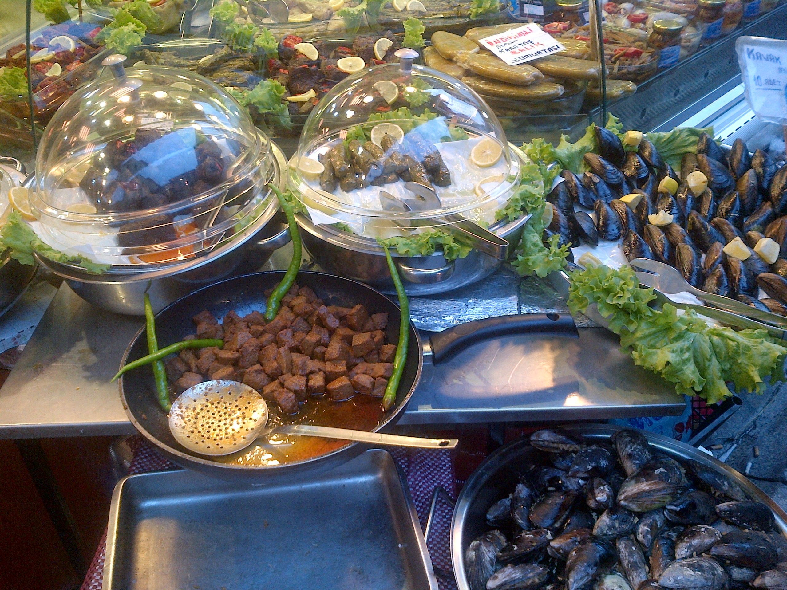 Arnavut ciğeri is a Turkish "meze" delicacy, made of cow liver. In the picture, other Turkish food like havyar and mezes such as yaprak sarma and midye dolma (mussels stuffed with pilav).